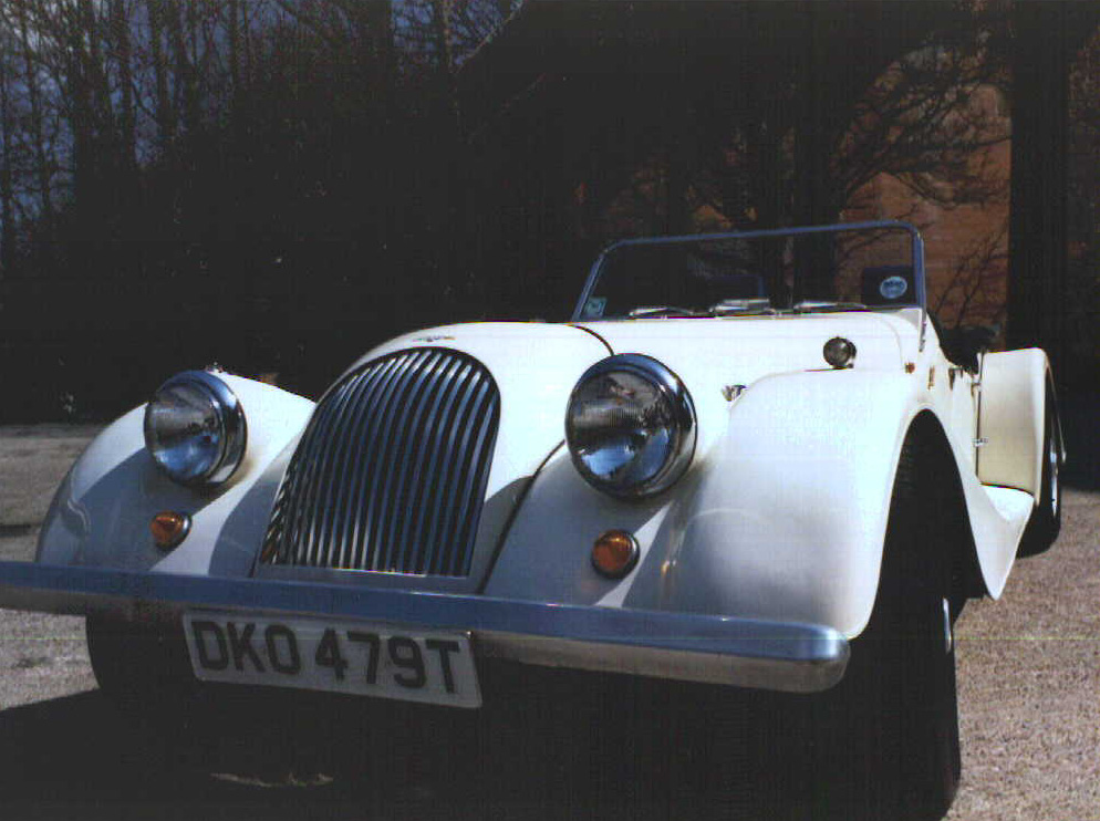 GCS Hawke- 2 litre Ford Pinto - 1997 - Build by author